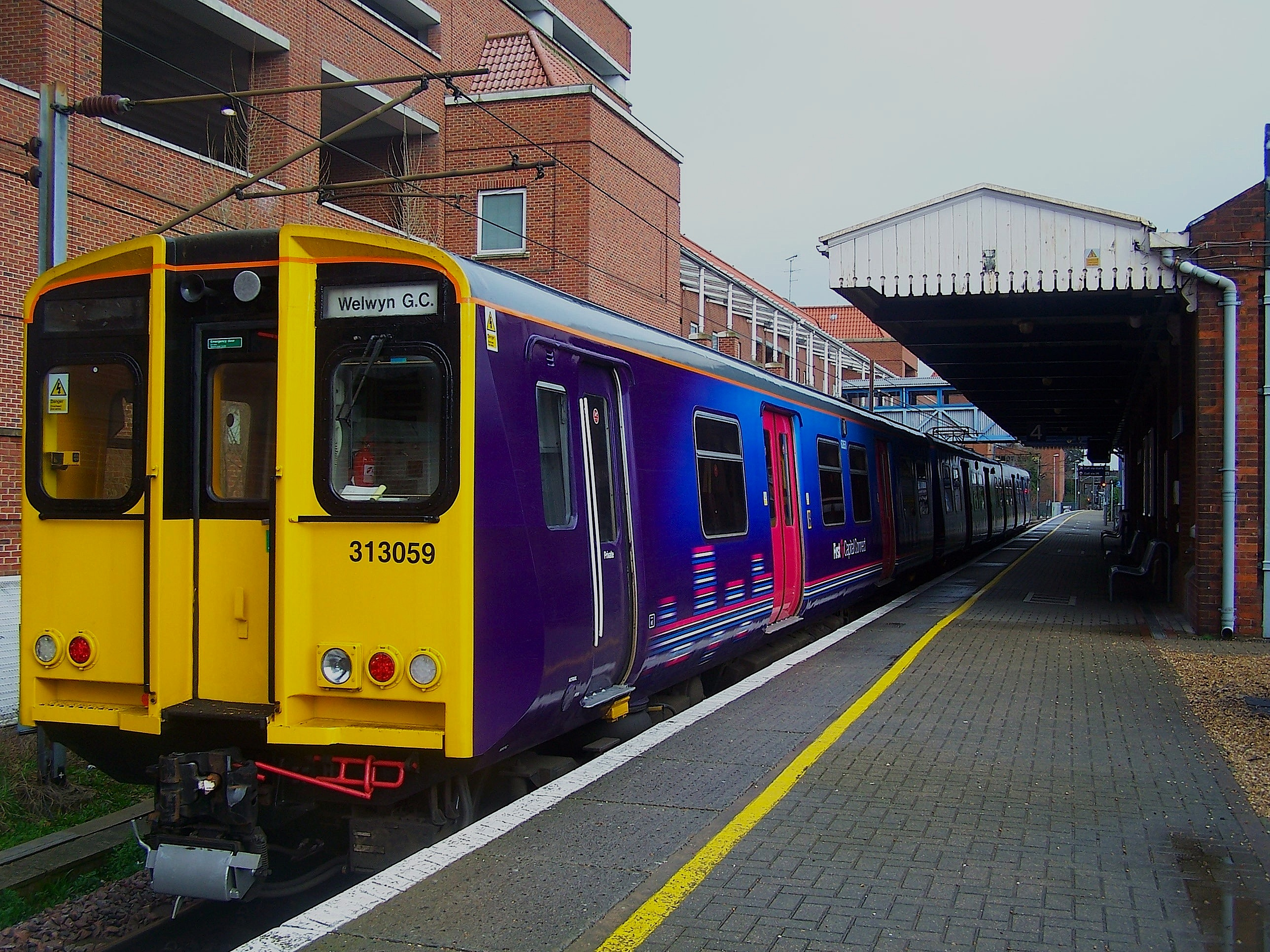 First Capital Connect Class 313 No. 313059 at Welwyn Garden City